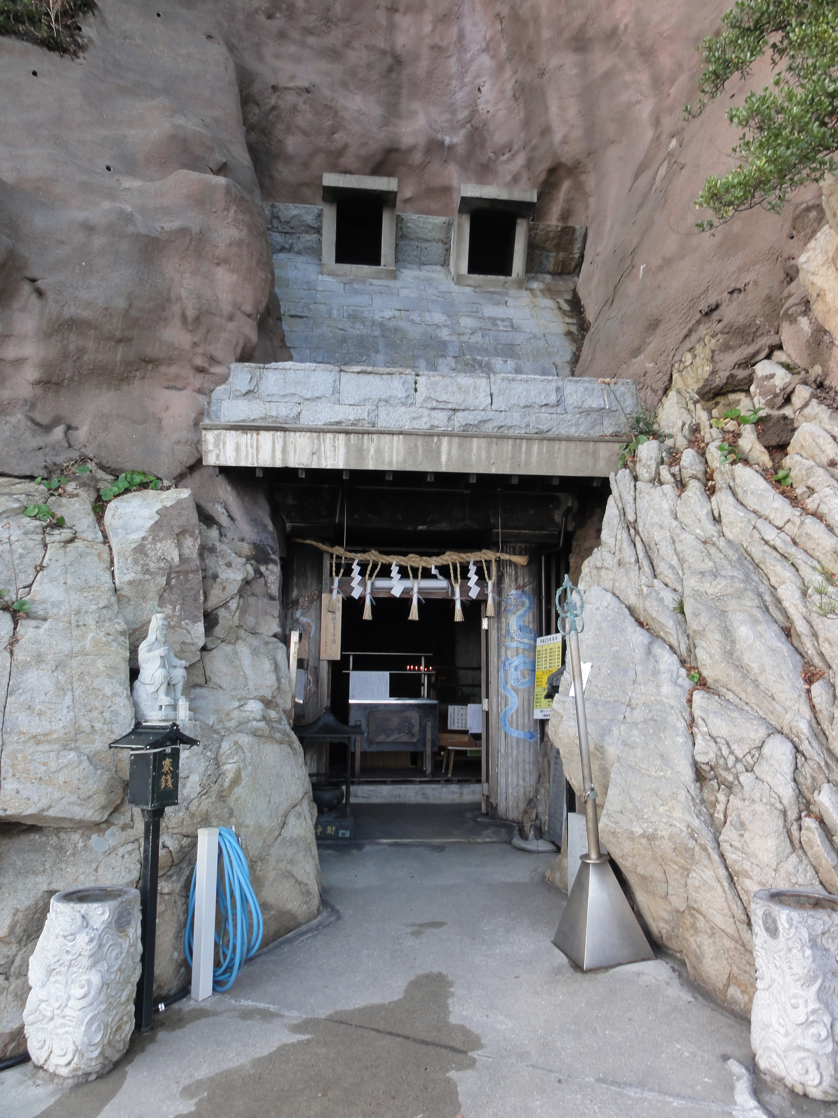 Cave in Takei cape,Kagawa pref.,Japan